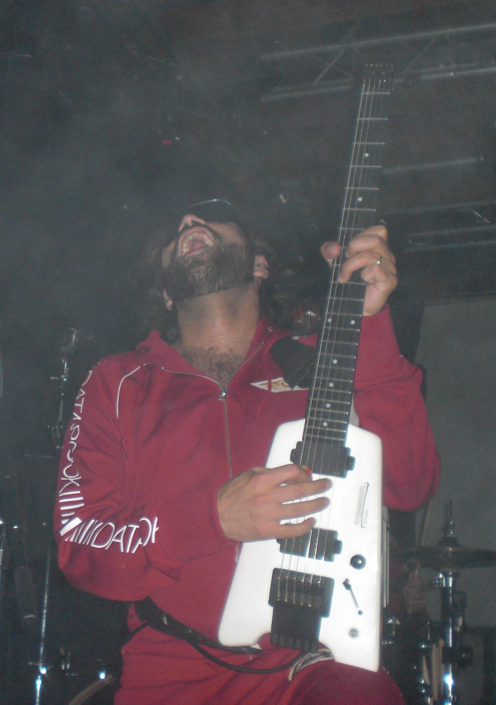 Fredrik Saroea from Datarock, performing live on his white Steinberger guitar at Driv in Tromsø, Norway.